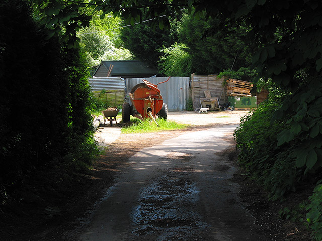 Jordans Lane at Portmore Farm. Jordans Lane passes Portmore Farm buildings on the left, bends to the right and emerges into the centre of Portmore.